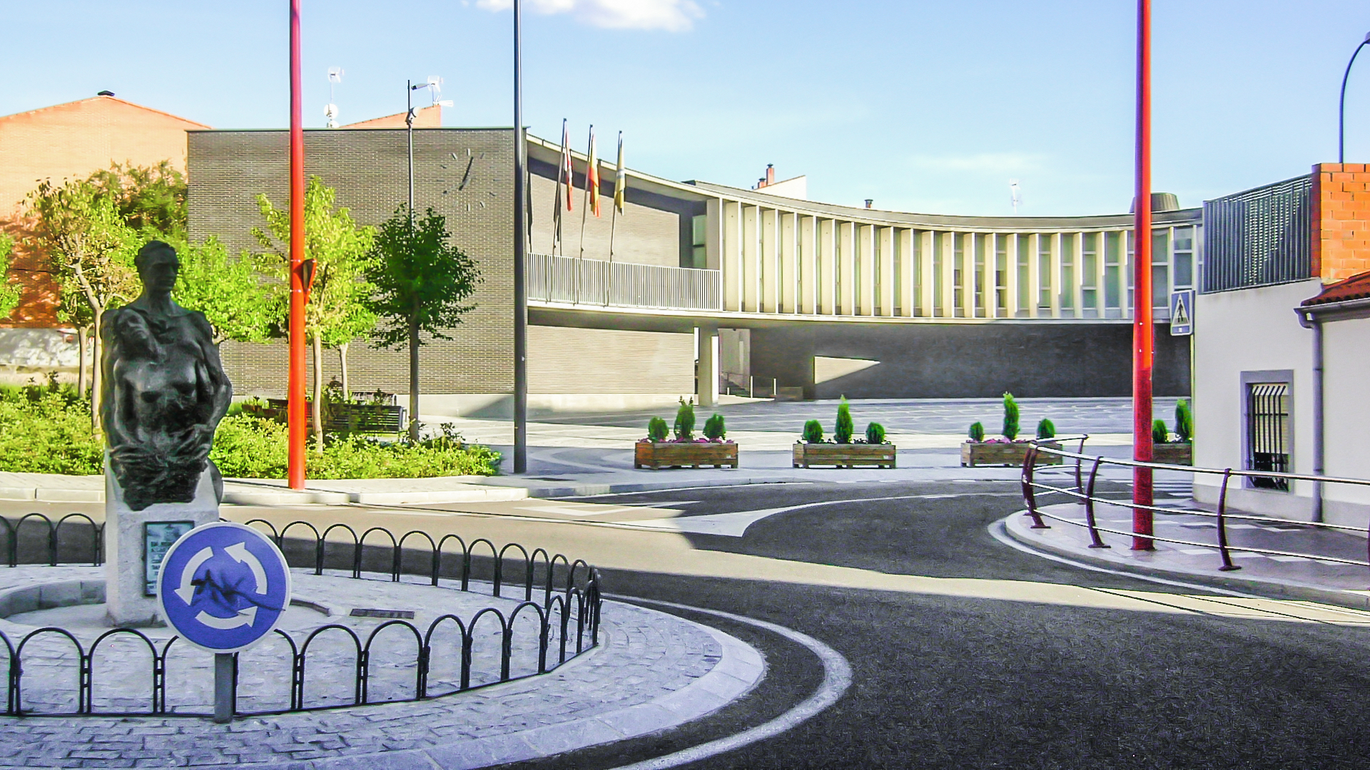 Santa Marta de Tormes (Salamanca)